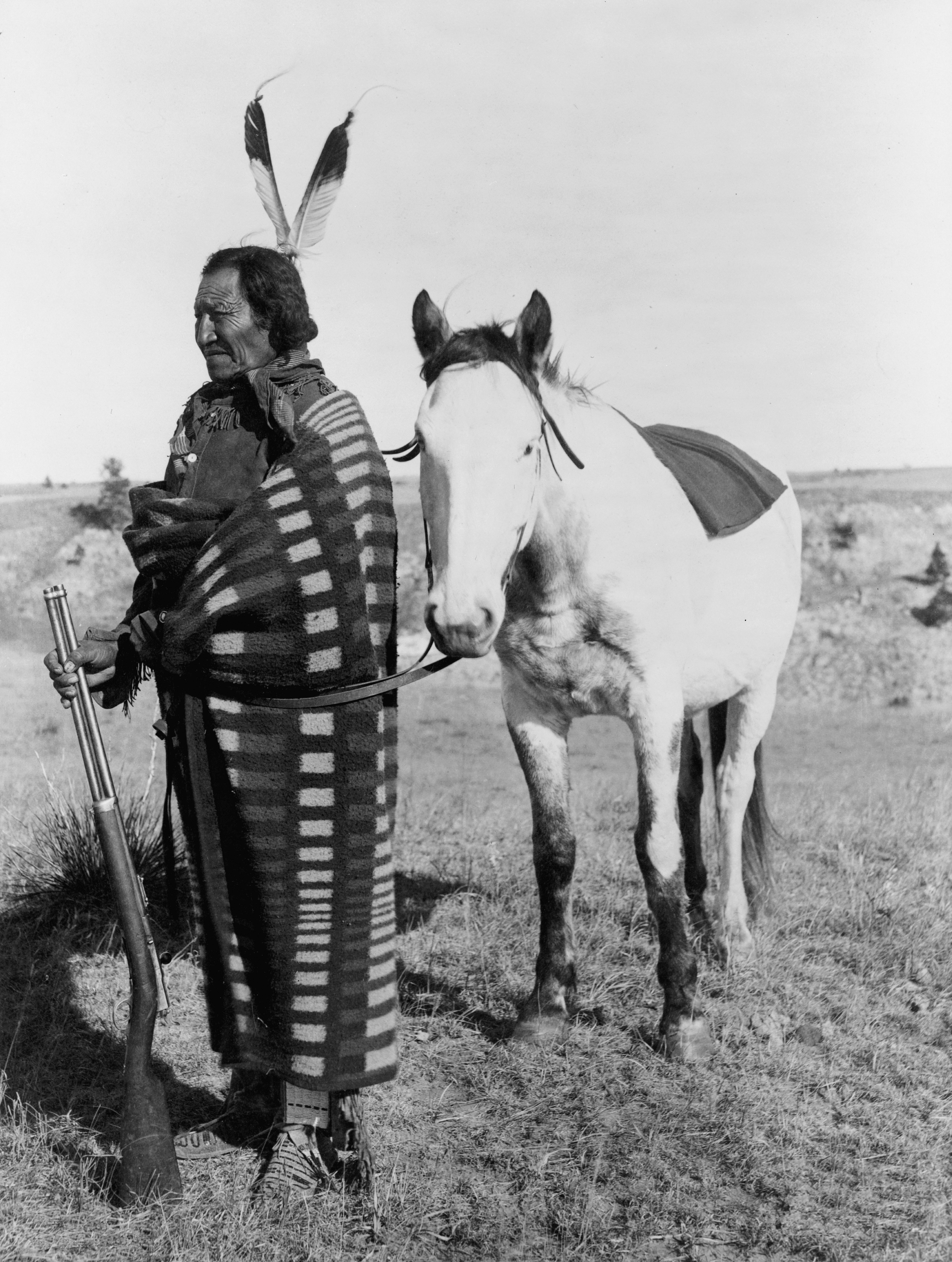 Photograph of Brule Lakota Chief Crow Dog, rifle and horse